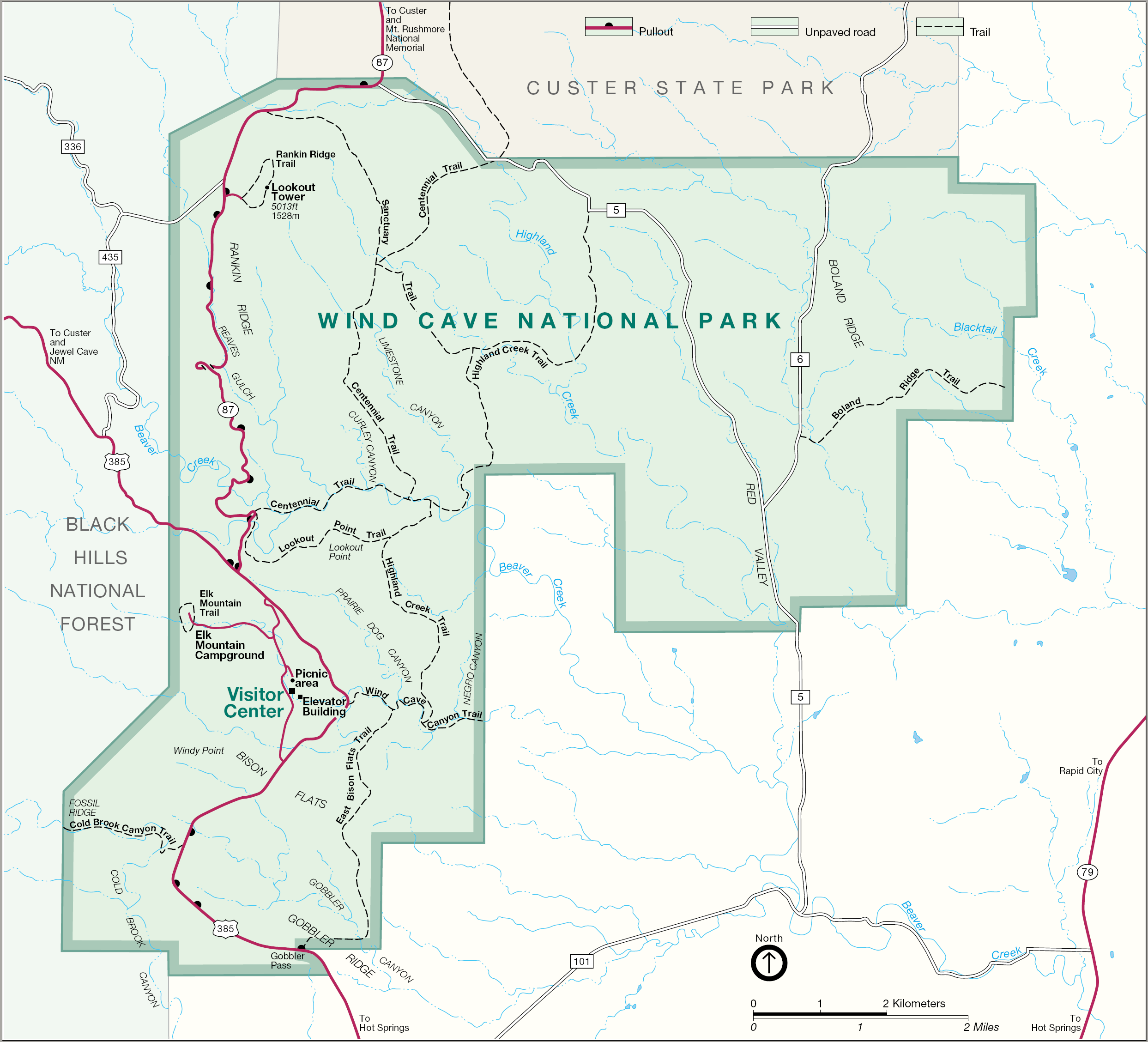 Map of Wind Cave National Park — in South Dakota.